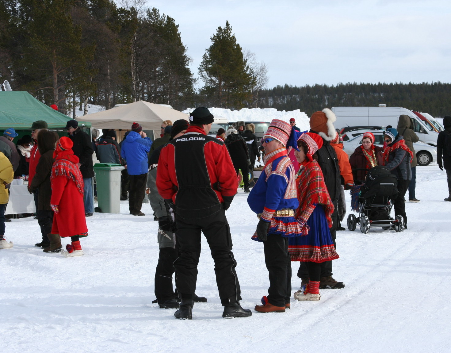 People at reindeer races, in Hetta, Enontekiö, Finland during the St Mary's Day in 2012. The races are held on the Ounasjärvi ice.